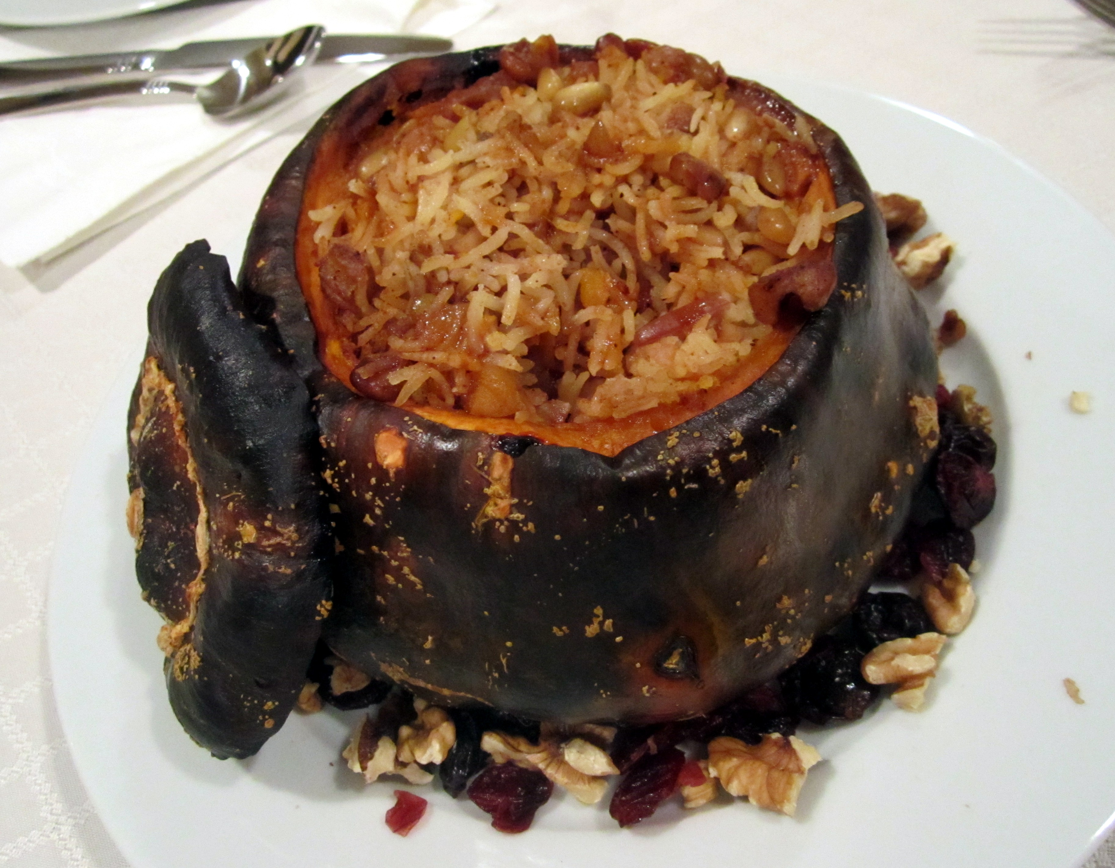 Mini ghapama made with butternut squash (Armenian dish made with baked pumpkin stuffed with rice, nuts, and dried fruits)